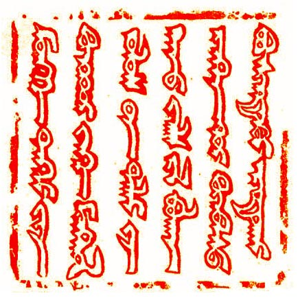 Seal of Güyük Khan using the classical Mongolian script, as found in a letter sent to the Roman Pope Innocent IV in 1246. English translation: "Under the Power of the Eternal Heaven, if the Decree of the Oceanic Khan of the Great Mongol Nation reaches people both subject or belligerent, let them revere, let them fear". Literally: "Eternal Heaven's Power-under, Great Mongol Nation's Oceanic Khan's Decree, Subject Belligerent People-unto reach-if, Revere-may Fear-may". Transcription of text columns (modern Mongolian in brackets) Möngke ṭngri-yin (Monkh tengeriin) küčündür. Yeke Mongγol (khuchin dor. Ikh Mongol) ulus-un dalai-in (ulsyn dalai) qanu ǰrlγ. Il bulγa (khaany zarlig. Il bulkha) irgen-dür kürbesü, (irgen dor khurvees) büsiretügüi ayutuγai. (bishirtugei ayutugai.)